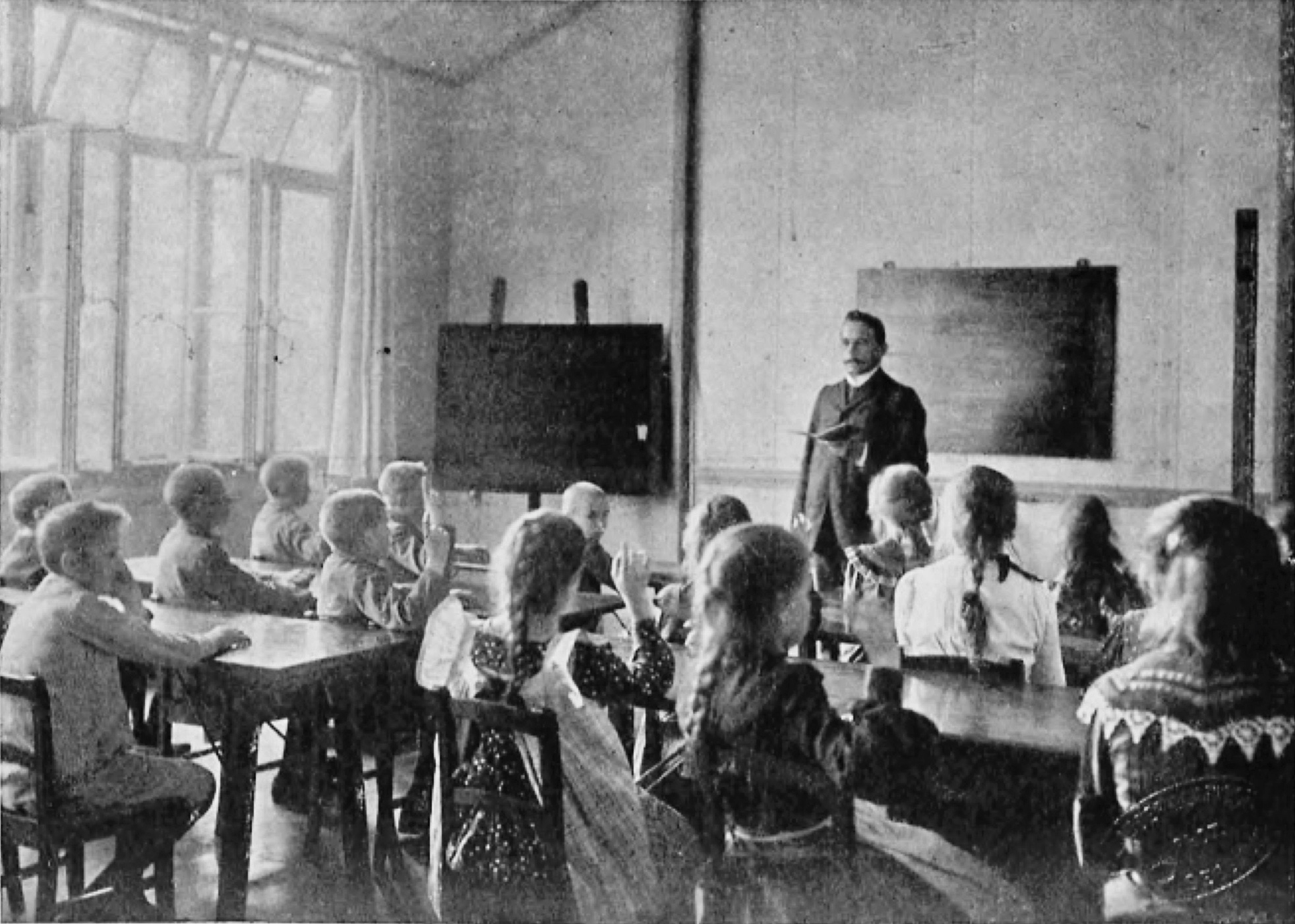 The picture of 1904 shows pupils of Waldschule für kränkliche Kinder (translated: Forest school for sickly children) in their classroom. The very first open-air school worldwide was meant to prevent children from tuberculosis. It was located in the borrough of Westend, in the city of Charlottenburg, near Berlin, Germany, in the outskirts of Grunewald forest, since 1920 part of Germany's capital.